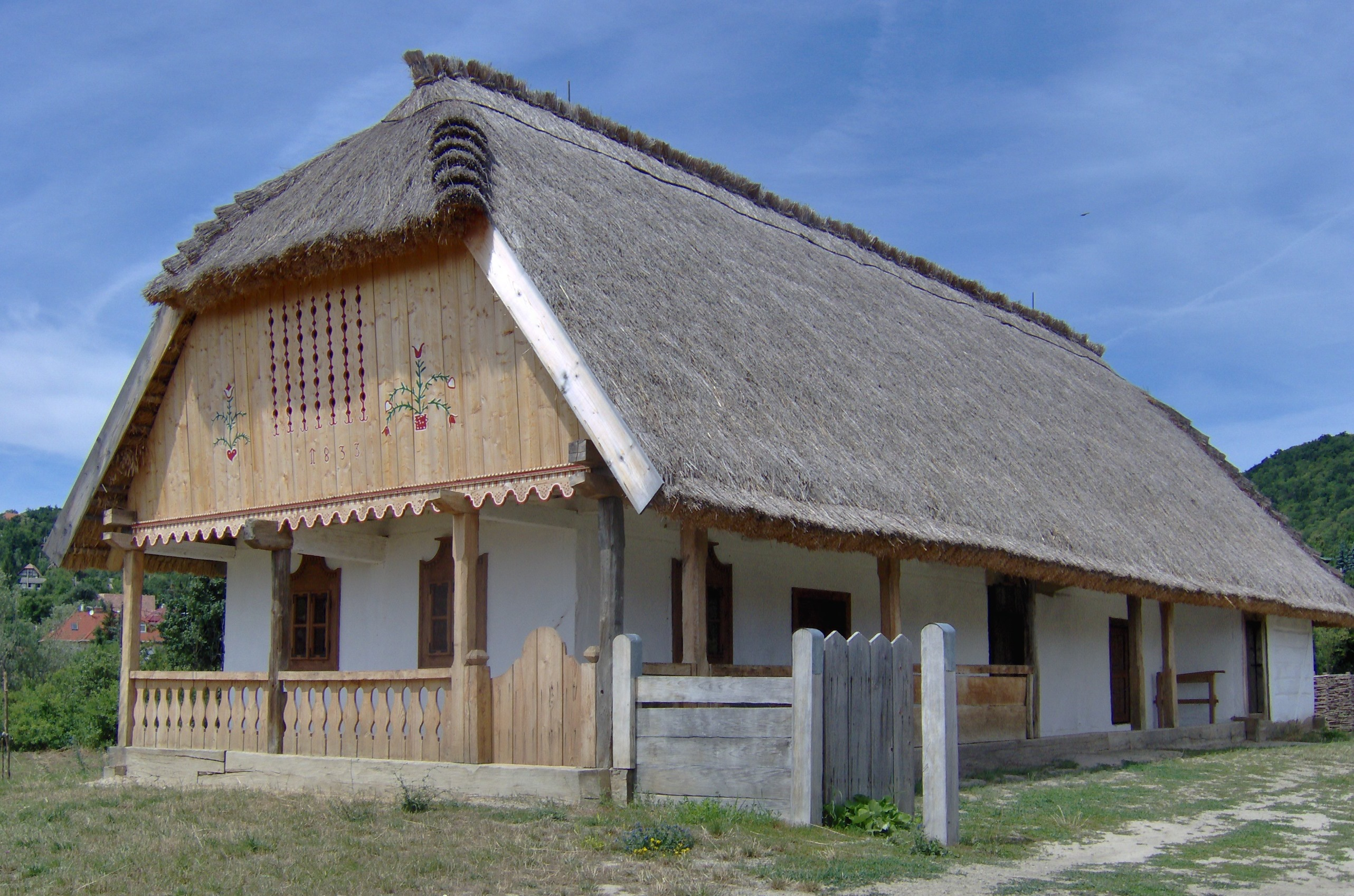 Szentendre Open Air Museum